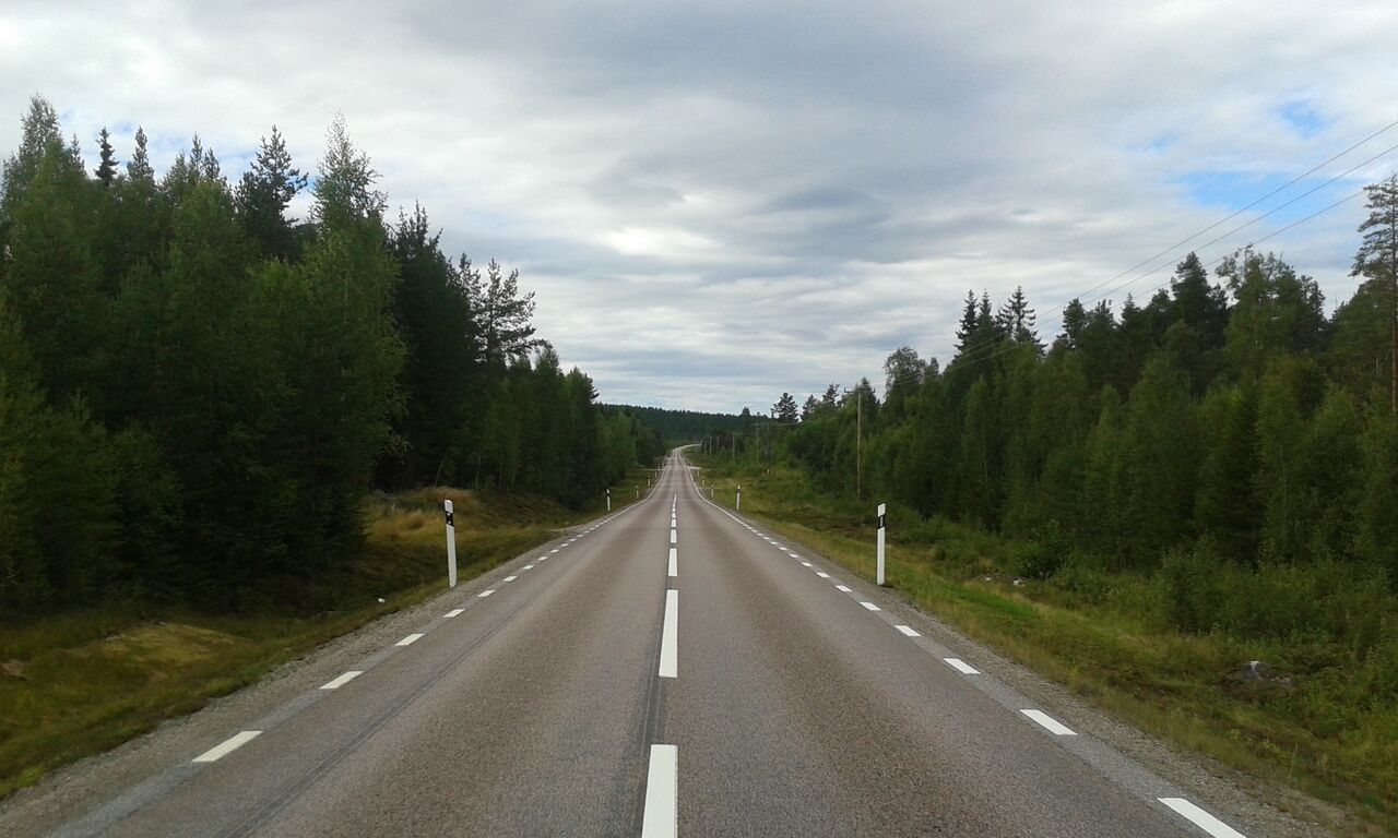 Swedish county road 239 near lake Gröcken